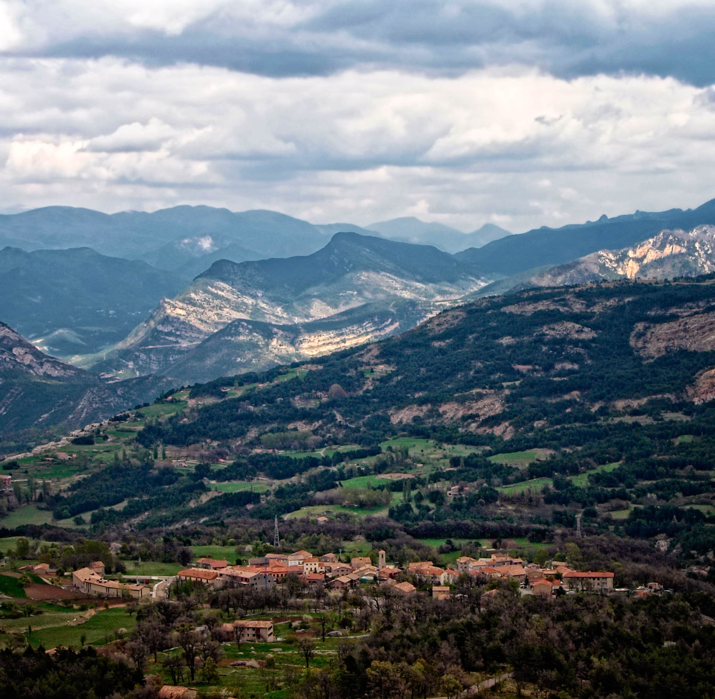 General Landscape from Vallcebre (Catalonia, Spain)